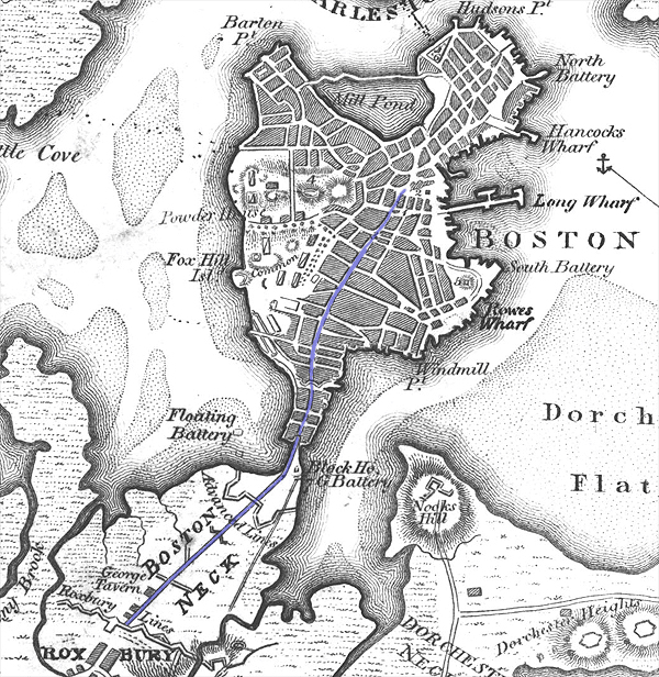 Early map of Boston showing the neck. From the collection of Historic New England. The blue line shows present-day Washington Street.